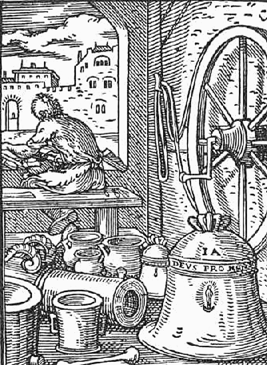 Historical Profession